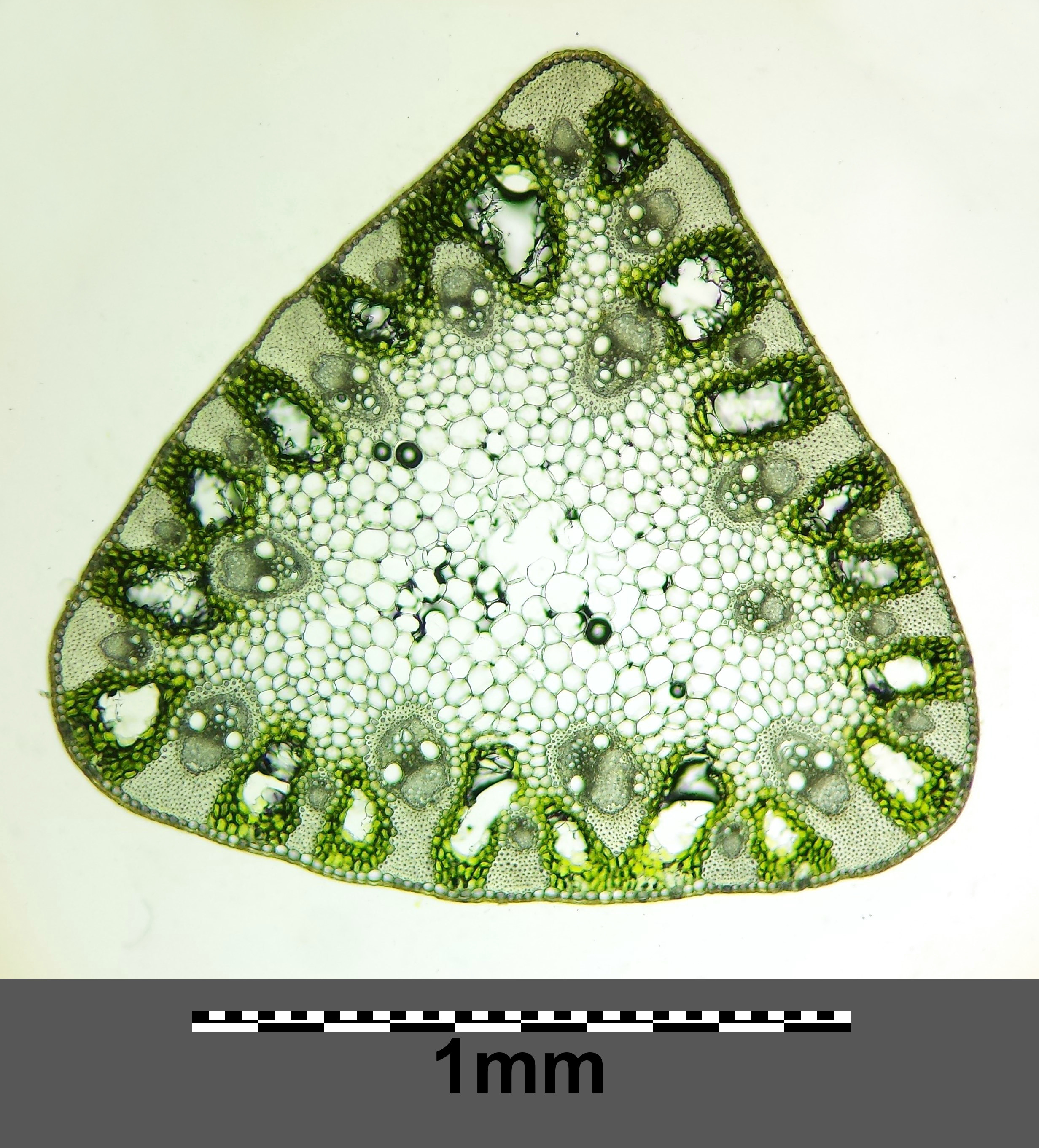 Stem (slice) Taxonym: Carex melanostachya ss Fischer et al. EfÖLS 2008 ISBN 978-3-85474-187-9 Location: Floridsdorf rail station, Vienna-Floridsdorf - ca. 160 m a.s.l. Habitat: area below a pipe